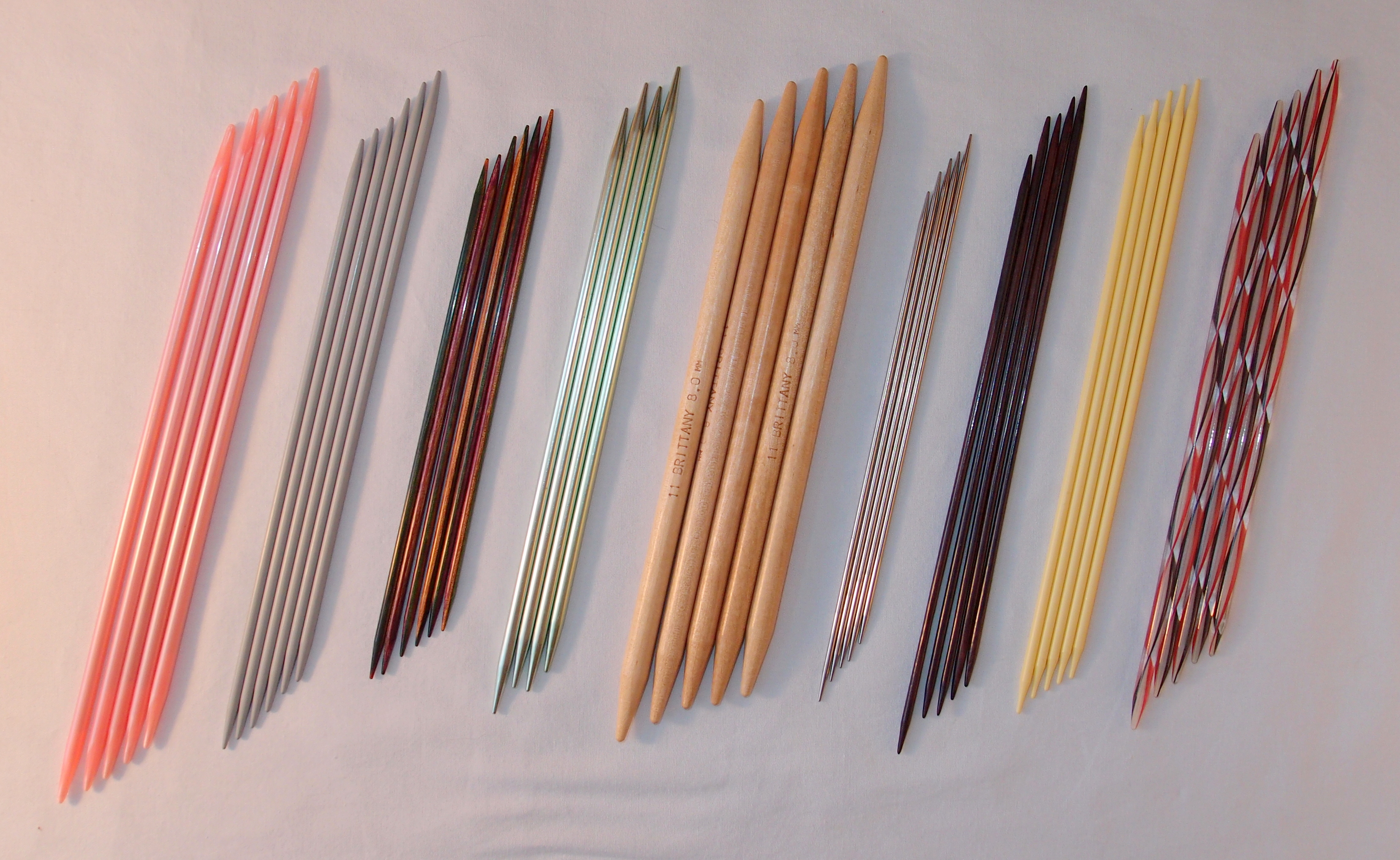 A selection of double pointed knitting needles in various sizes and materials. From left to right, US size 7 - Brass reinforced plastic, Size 3 - Coated aluminum, Size 2 - Laminated wood, Size 6 - Anodized aluminum, Size 11 - Birch wood, Size 0 - Steel, Size 3 - Rosewood, Size 3 - Flexible plastic, Size 7 - Acrylic